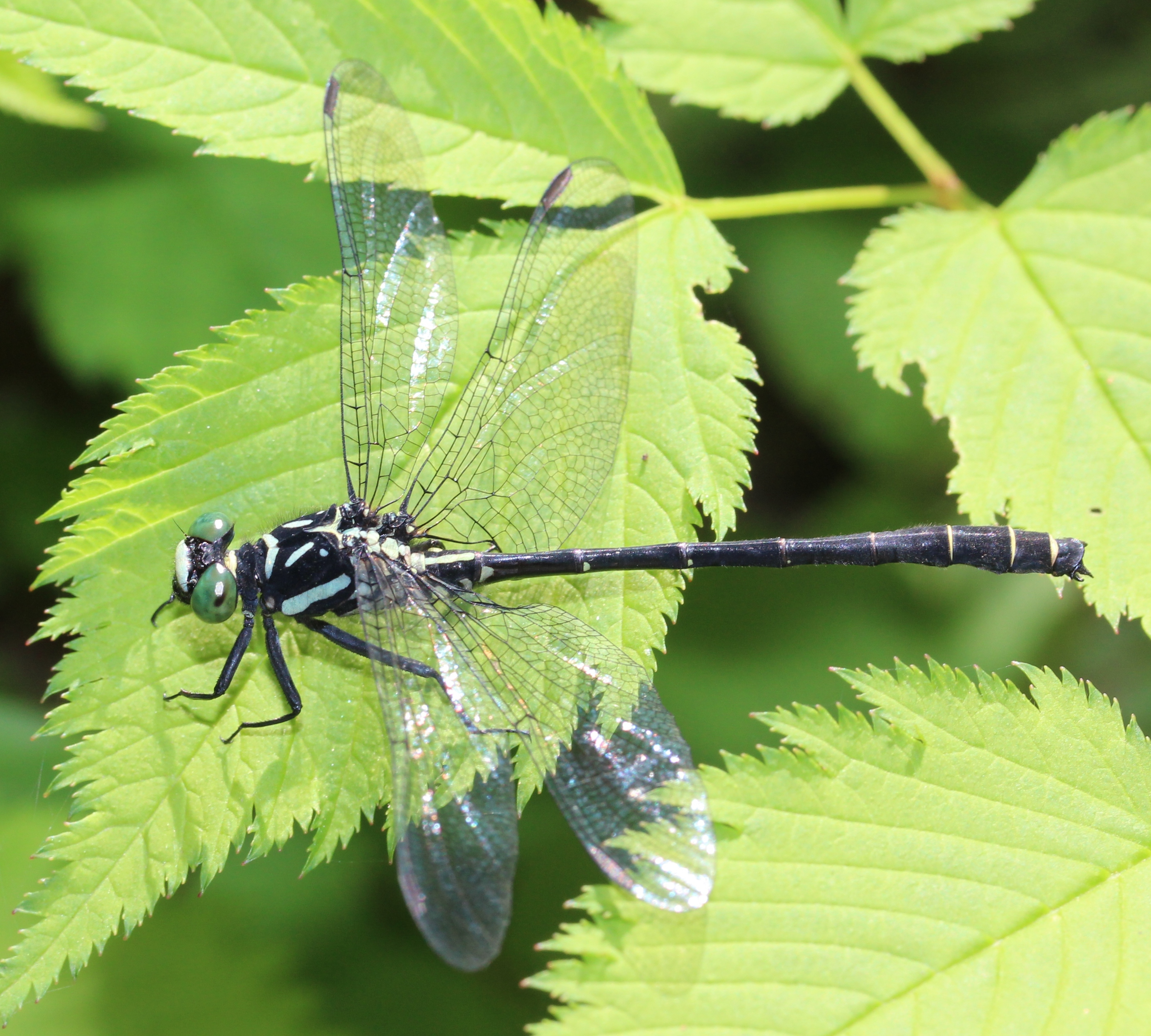 Davidius fujiama, male, in Ibigawa, Gifu prefecture, Japan.